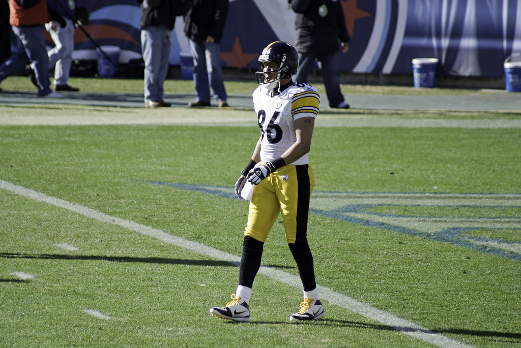 Hines Ward of the Pittsburgh Steelers prior to a 2008 game